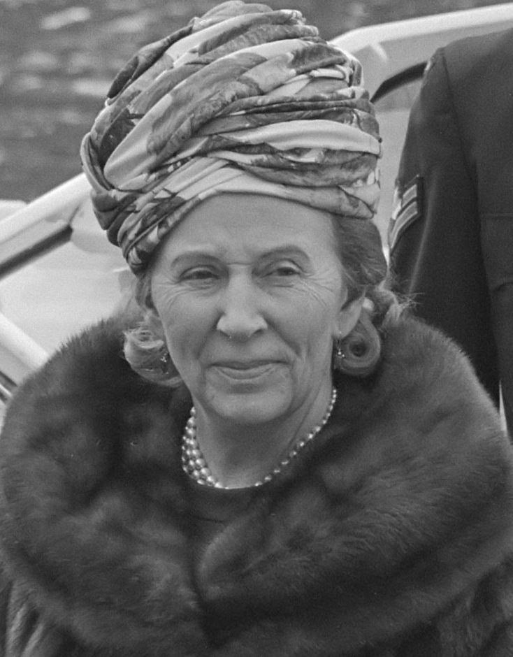 State visit by the governor-general of Canada Roland Michener and his wife Norah Willis Michener to the Netherlands. Arrival at the Central Station in Amsterdam, from left to right: Prince Bernhard, Norah Michener, Governor General Michener, Queen Juliana (partly visible)